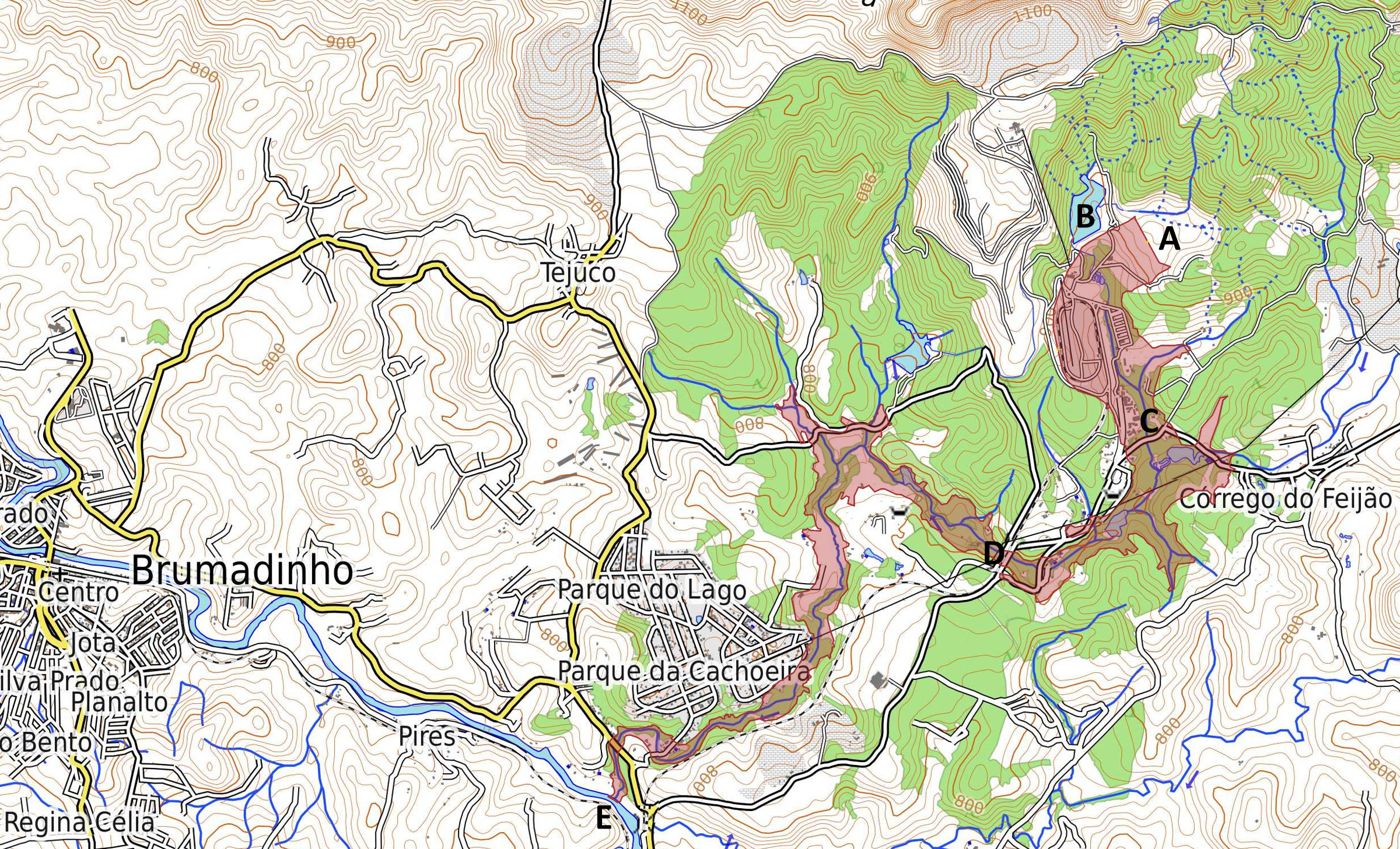 Map of tailings dam collapse disaster east of Brumadinho at the Mina Córrego do Feijão. Highlighted in red is the coverage and destruction of the mine dump and debris after the collapse. A Location of destroyed dam and former tailings pond "Barragem I". B Location of second tailings pond "Barragem VI" with destabilized dam, due to the event. C Location of the destroyed office buildings and the cantina of the mine at Vila Ferteco. D Location of the destroyed railway bridge. E Location of the entry point of the mud flood into the river Rio Paraopeba.